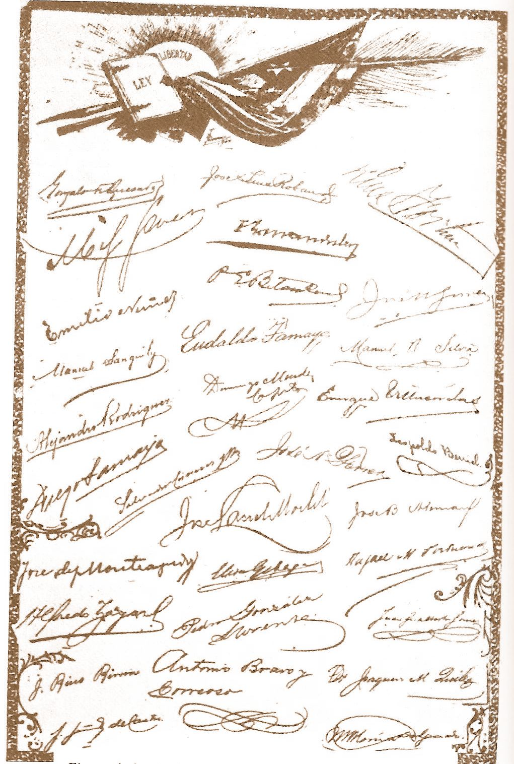 Picture of the page of the Constitution of Cuba of 1901, where it was signed.